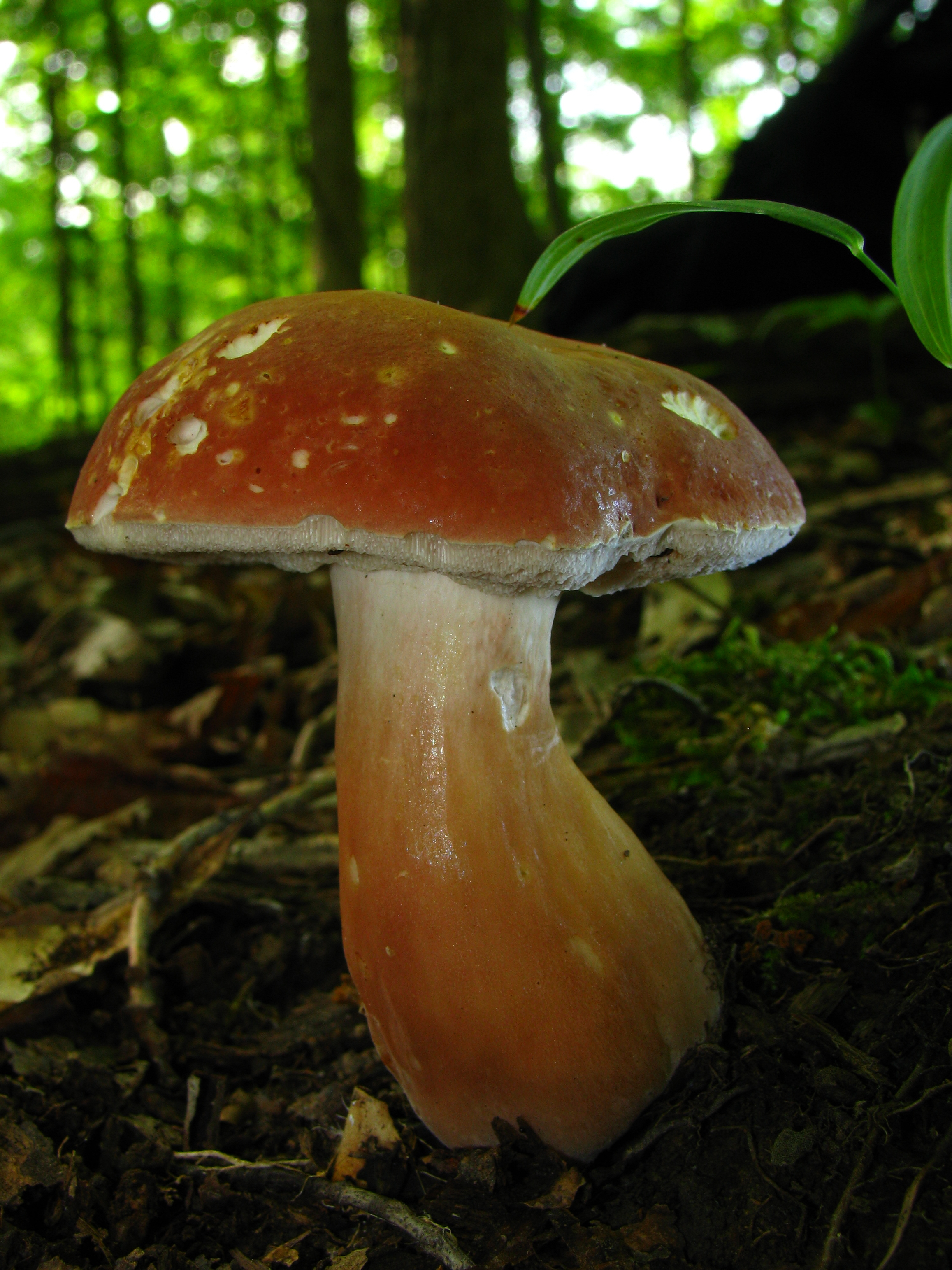 Xanthoconium affine Location: Strouds Run State Park, Athens, Ohio, USA For more information about this, see the observation page at Mushroom Observer.